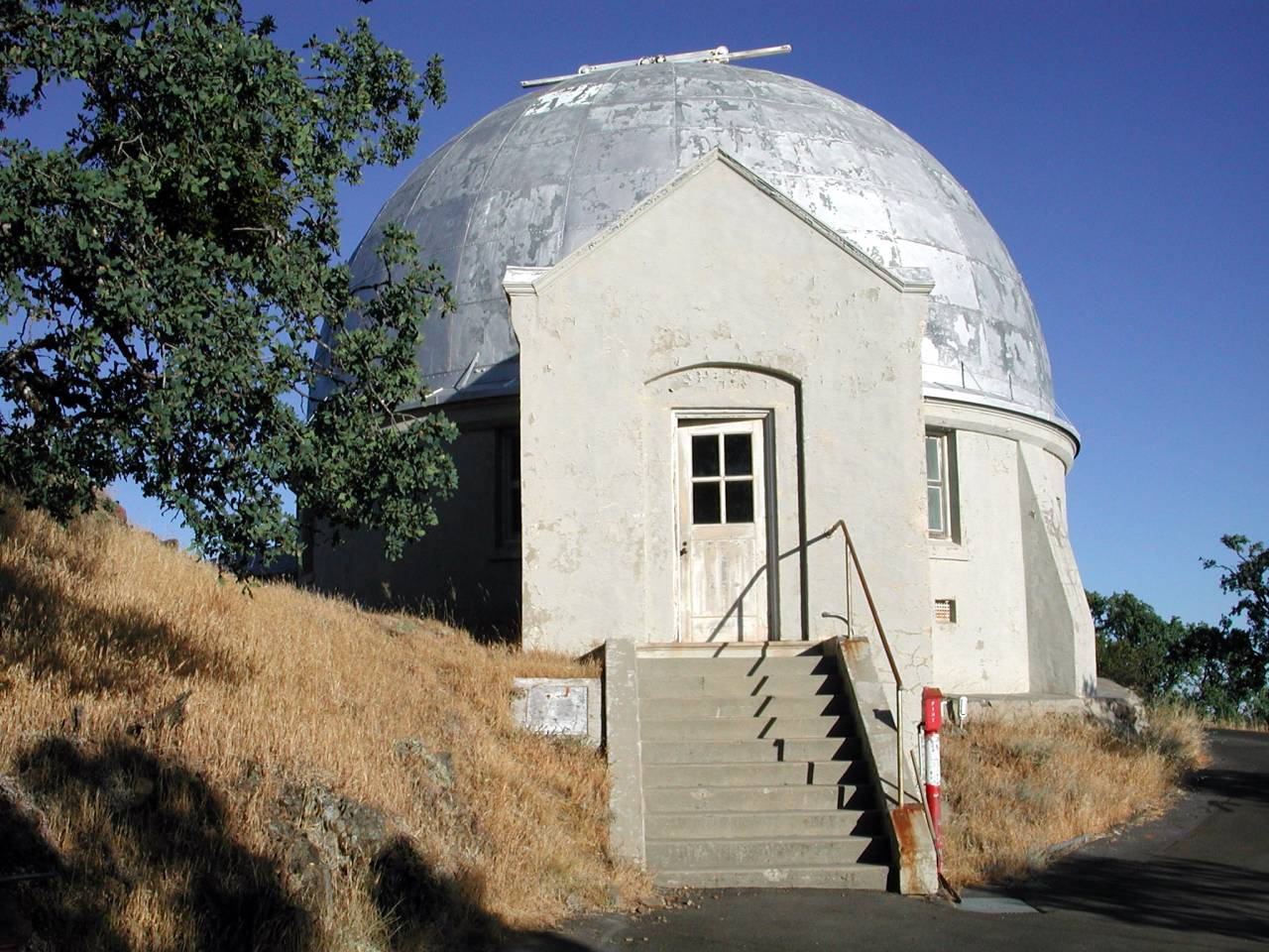 by David McInnis, 2002, while on observing run for thesis at the Crossley.